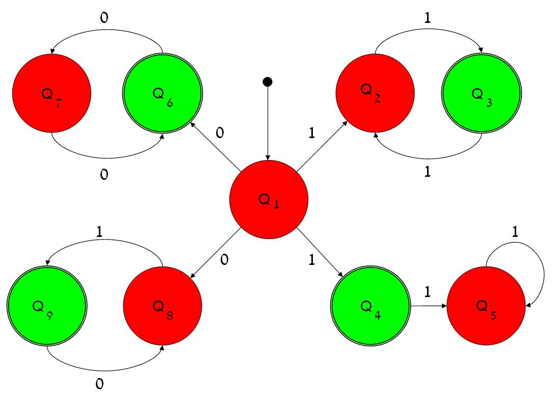 A sketch of Nondeterministic finite state machine